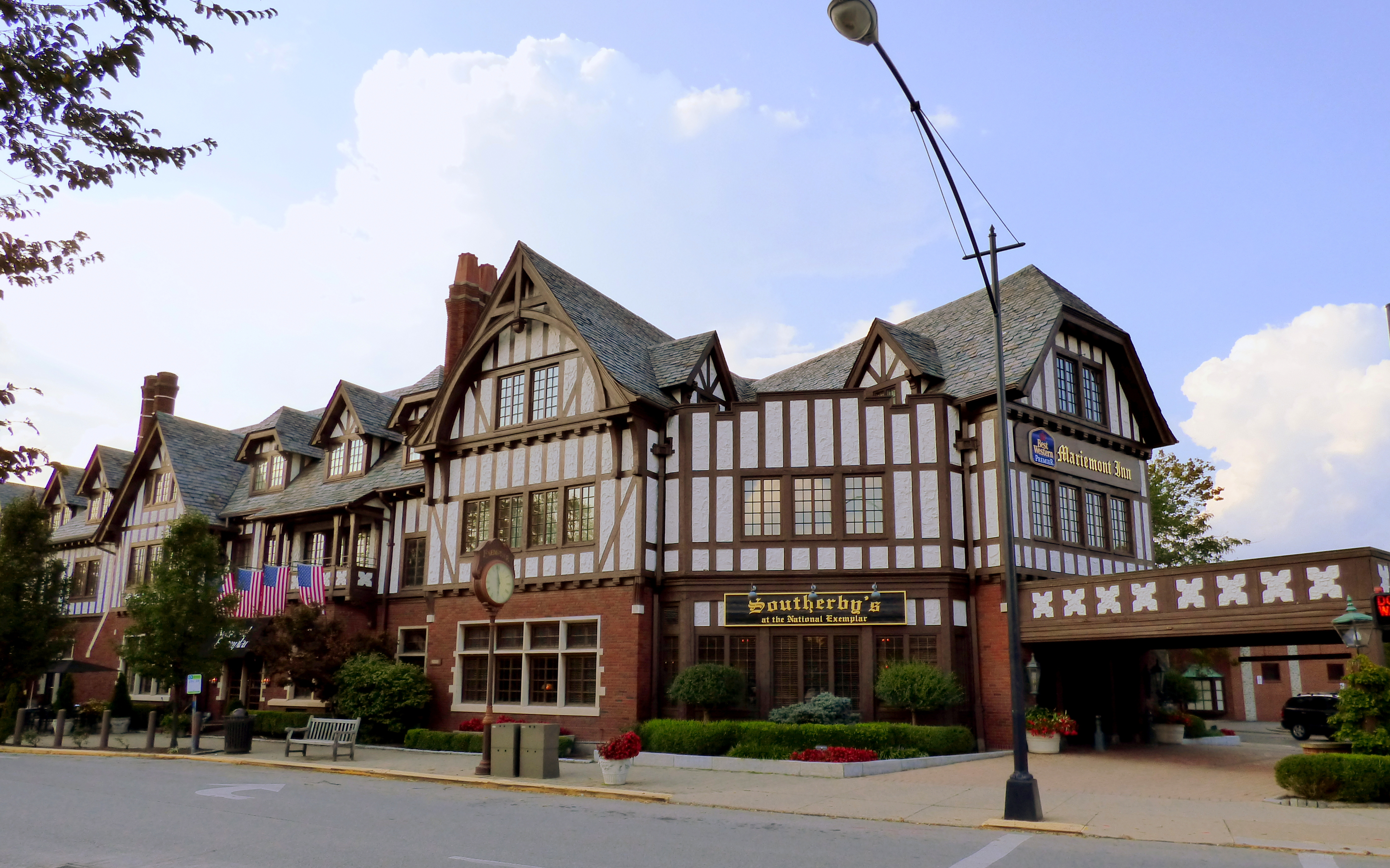 Mariemont Inn in downtown Mariemont, Ohio